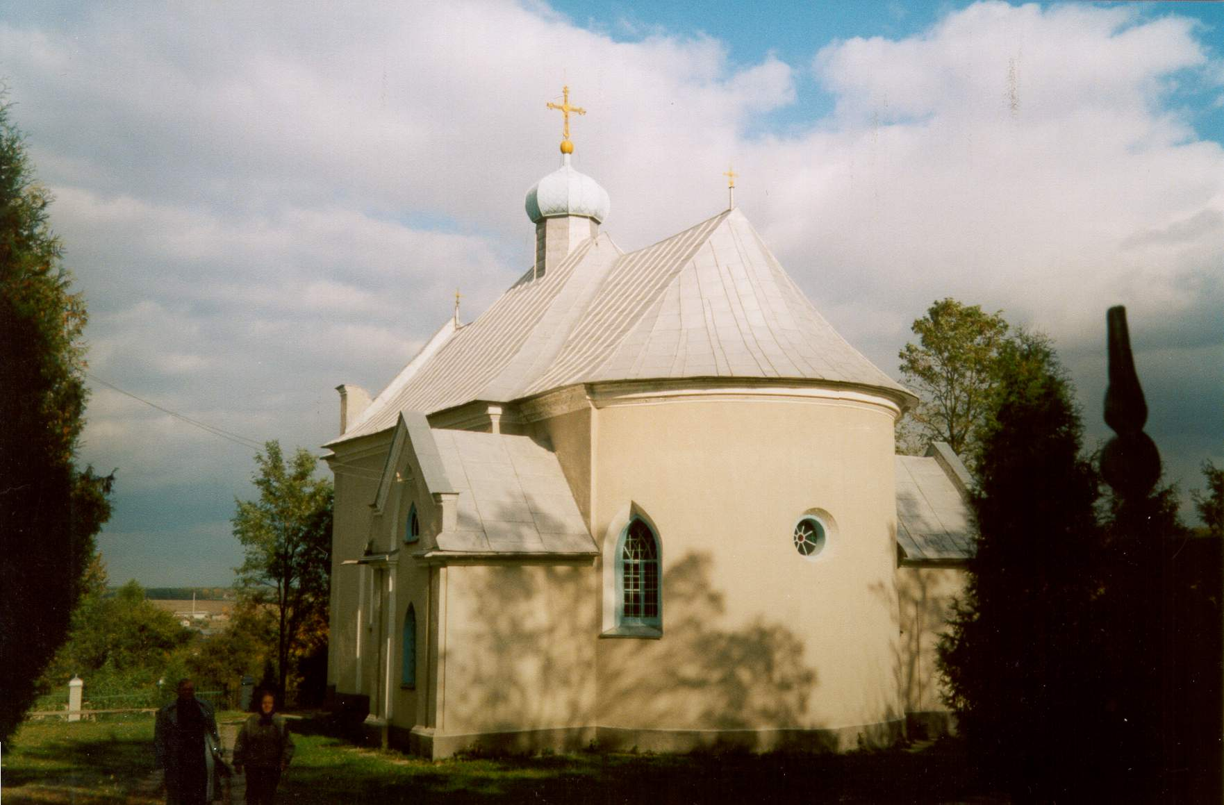 St. Paraskeva church in Chernitsya, Brody raion, Lviv Oblast, Ukraine